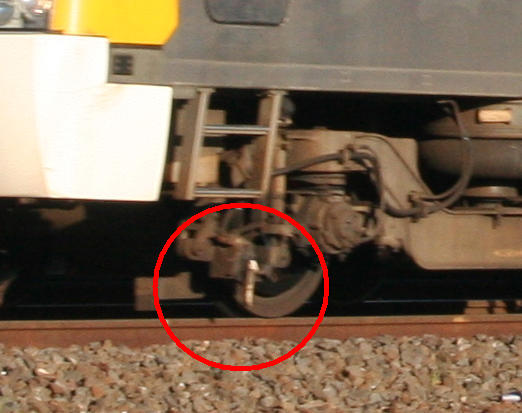 Trip gear for use with train stops, on a Siemens train in Melbourne, Australia